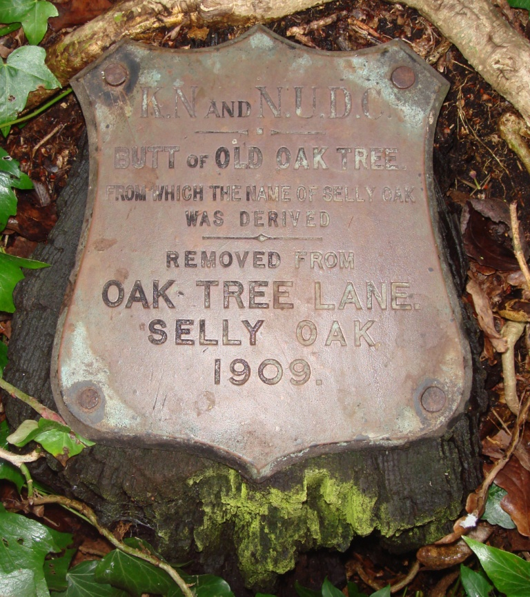 Digital photograph of the brass plaque on the stump of the old Selly Oak-tree, which reads "Butt of Old Oak Tree from which the name of Selly Oak was derived. Removed from Oak Tree Lane, Selly Oak 1909"